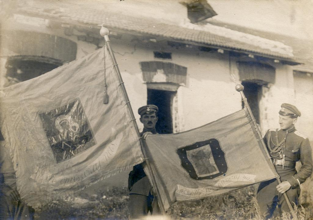 Polish cavalrymen with regimental banners; around 1918